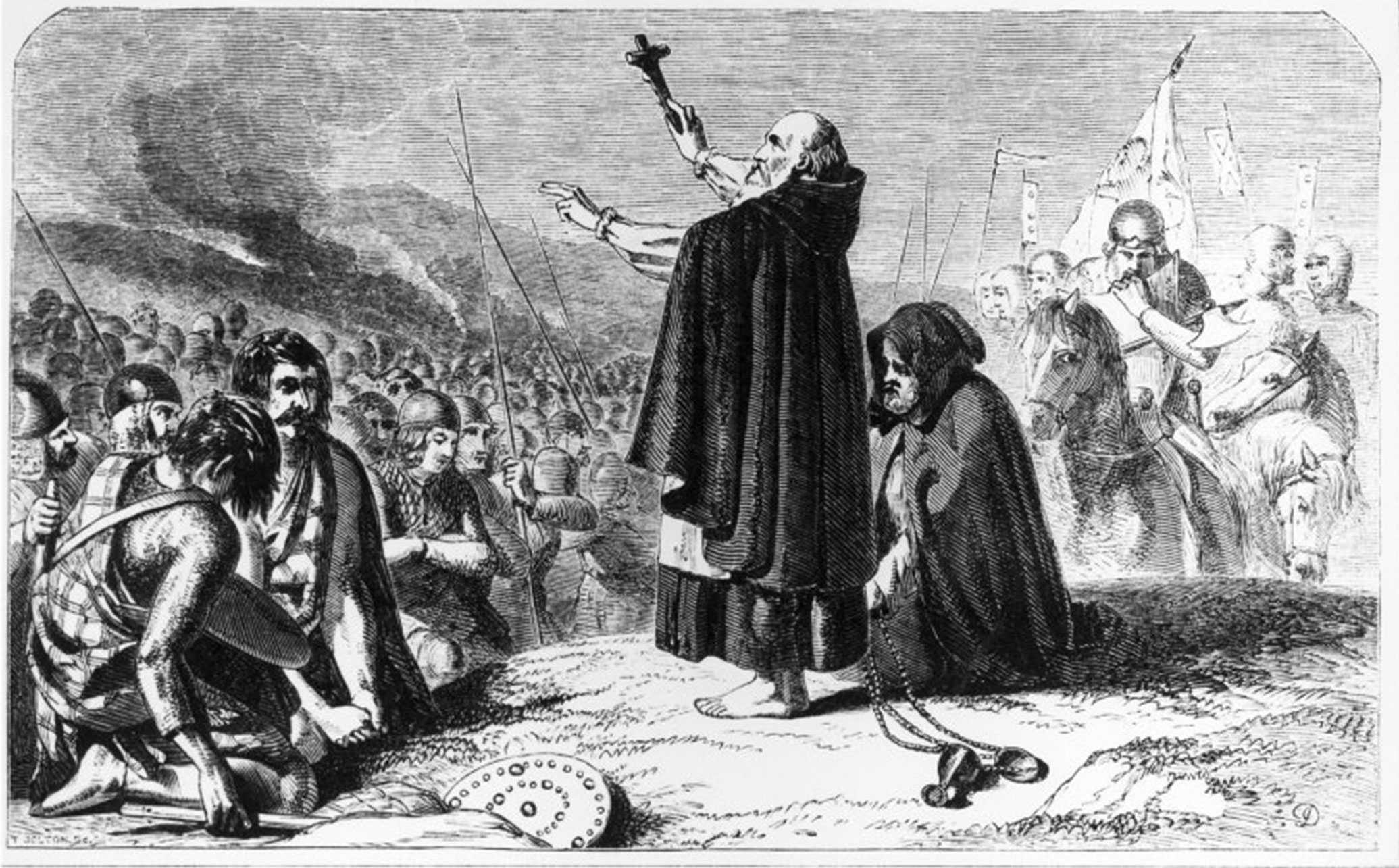 Maurice of Inchaffray blessing the Scottish army at the Battle of Bannockburn (1314); artist English School. (Source)